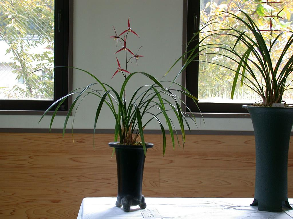 Cymbidium kanran (Orchidaceae) Japanese name:Knran Date;2007,11,17;Tanabe city, Wakayama prefecture, Japan Author;Keisotyo